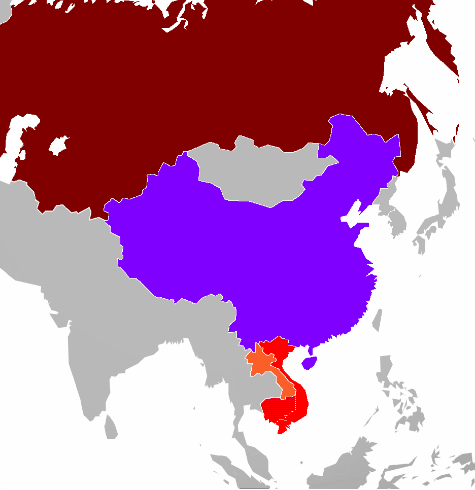 Map showing the containement of China by the USSR, with the used of the under imperialism of Vietnam.